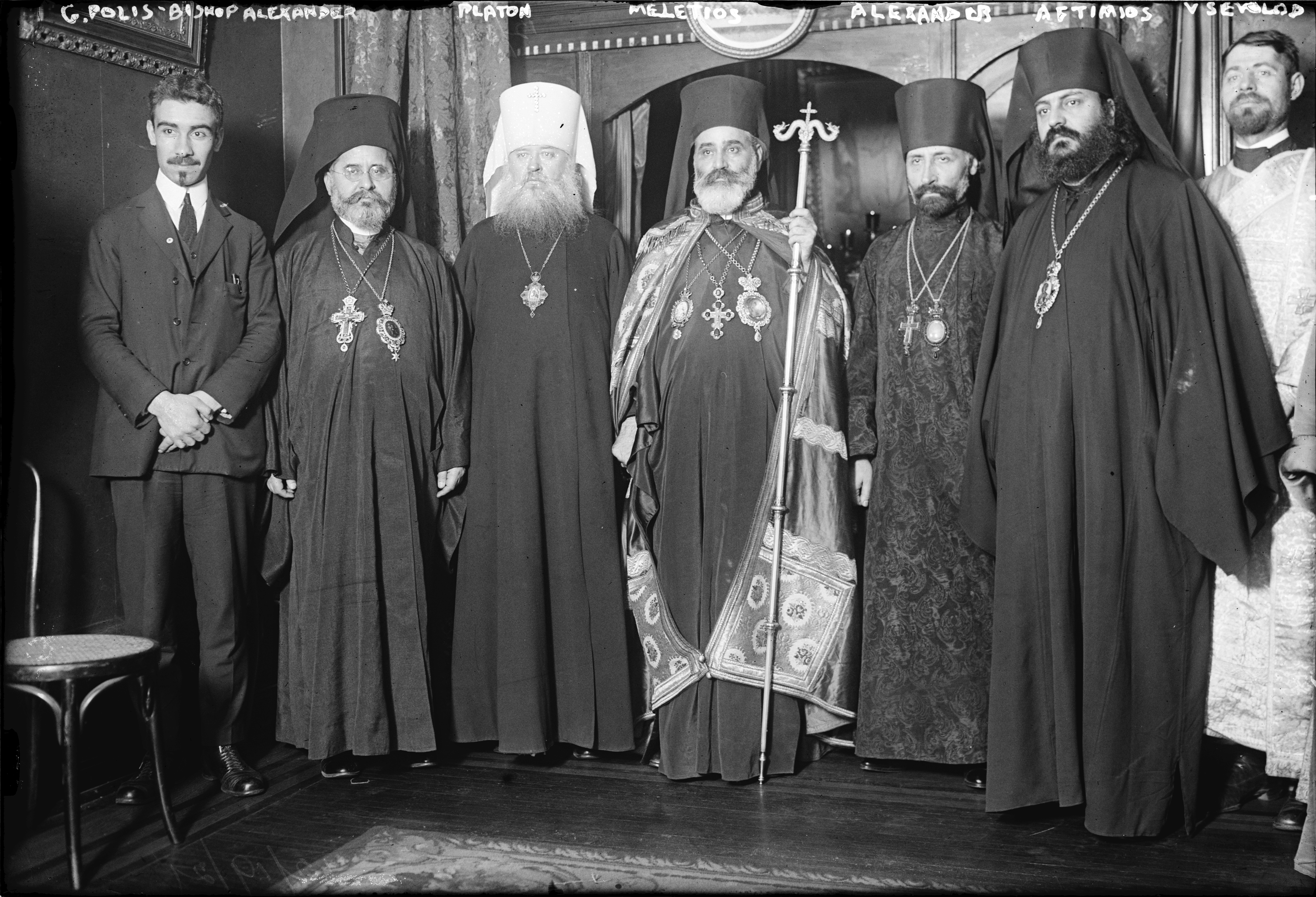 1921 Orthodox gathering of bishops. L to R: Germanos Polyzoides (later Metropolitan), bishop Alexander Demoglou, Metropolitan Platon Rozhdestvensky, Patriarch-elect Meletios Metaxakis, Archbishop Alexander Nemolovsky, bishop Aftimios Ofiesh, and Archdeacon Vsevolod Andronoff [1]